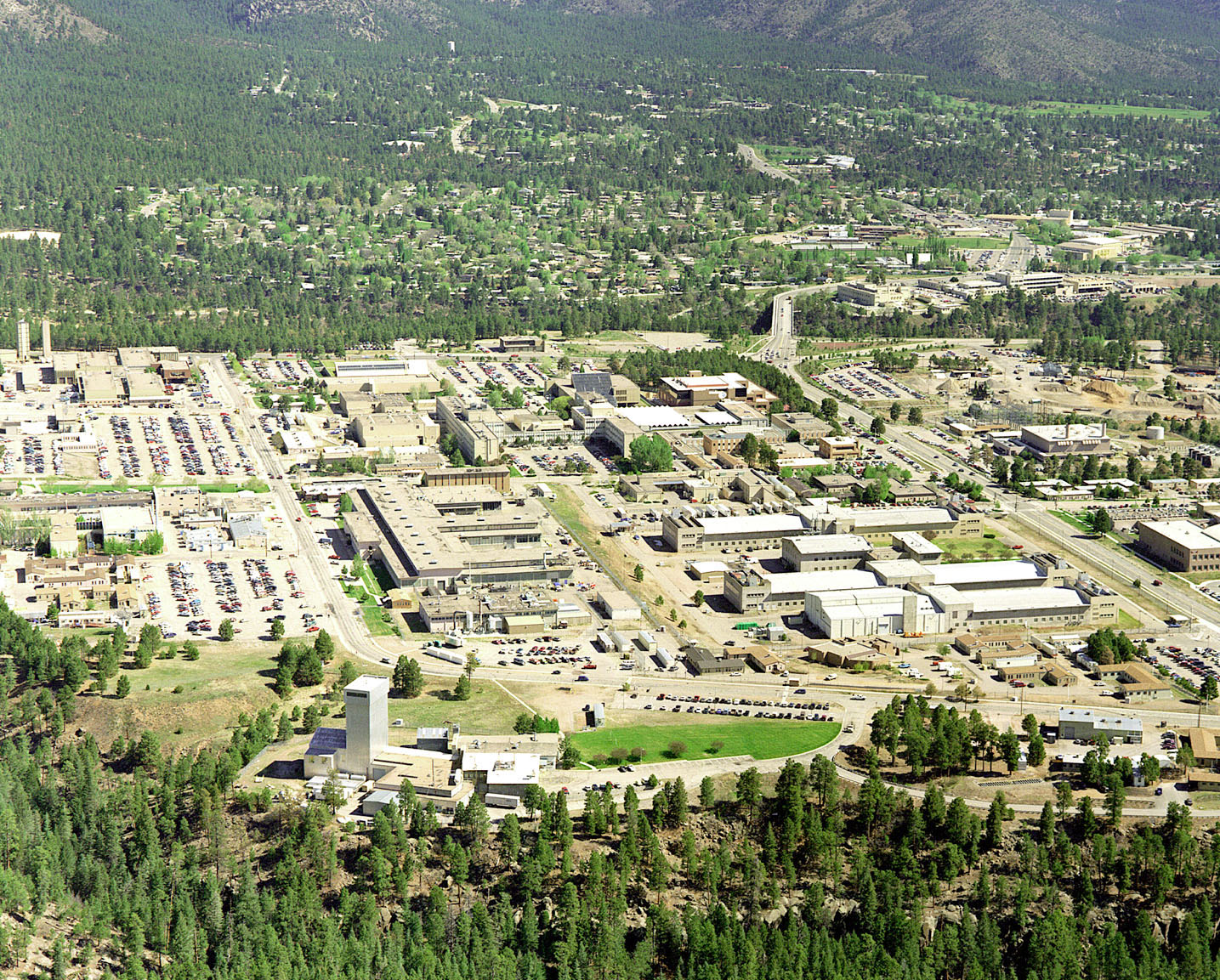 Aerial view of Los Alamos National Laboratory, "1995 aerial TA-3 south to north".